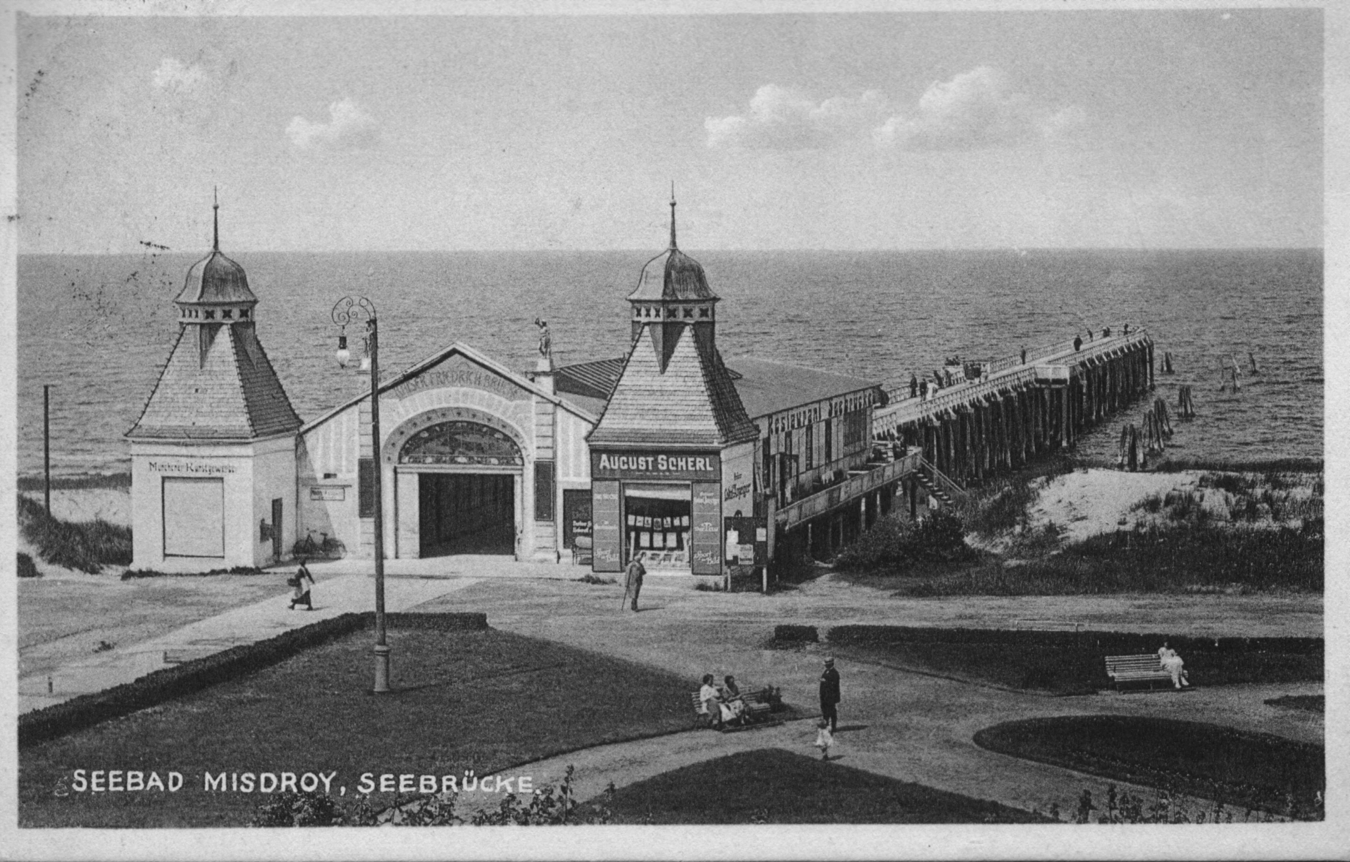 First pier in Międzyzdroje